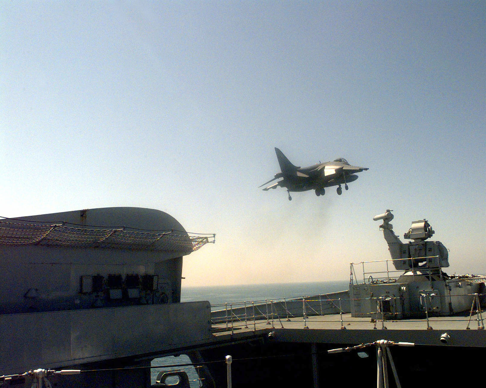 A British Royal Air Force BAe Harrier GR.7 takes off from the flight deck of the aircraft carrier HMS Illustrious (R06) in the Persian Gulf. Note the Goalkeeper CIWS on the right.